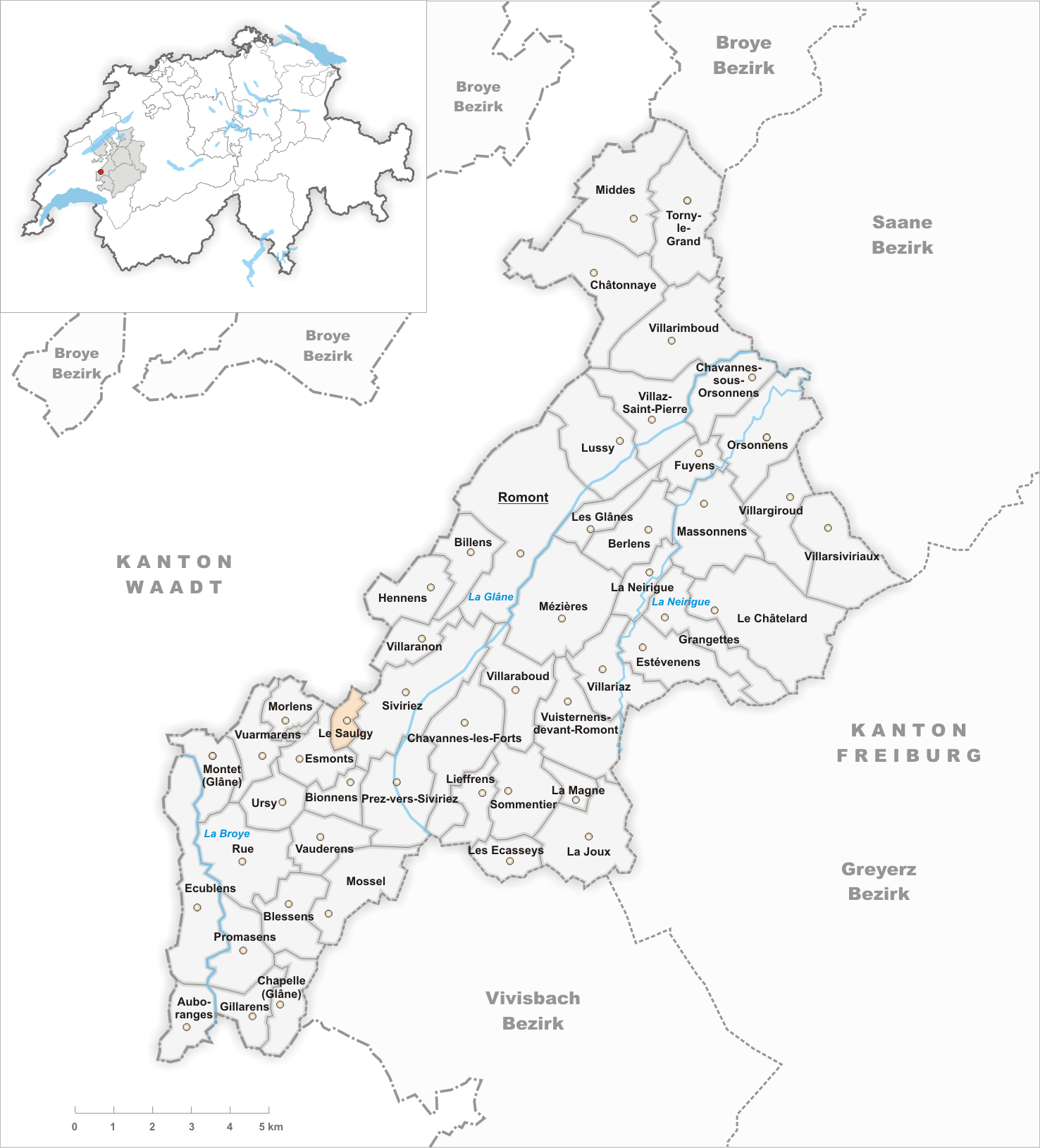 Municipality Le Saulgy Artist: Tschubby